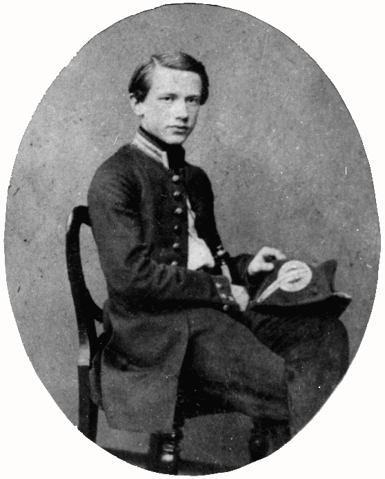 Tchaikovsky wearing the uniform of the Imperial School of Jurisprudence (May-June 1859)